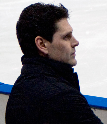 2010 Cup of Russia, free skating.